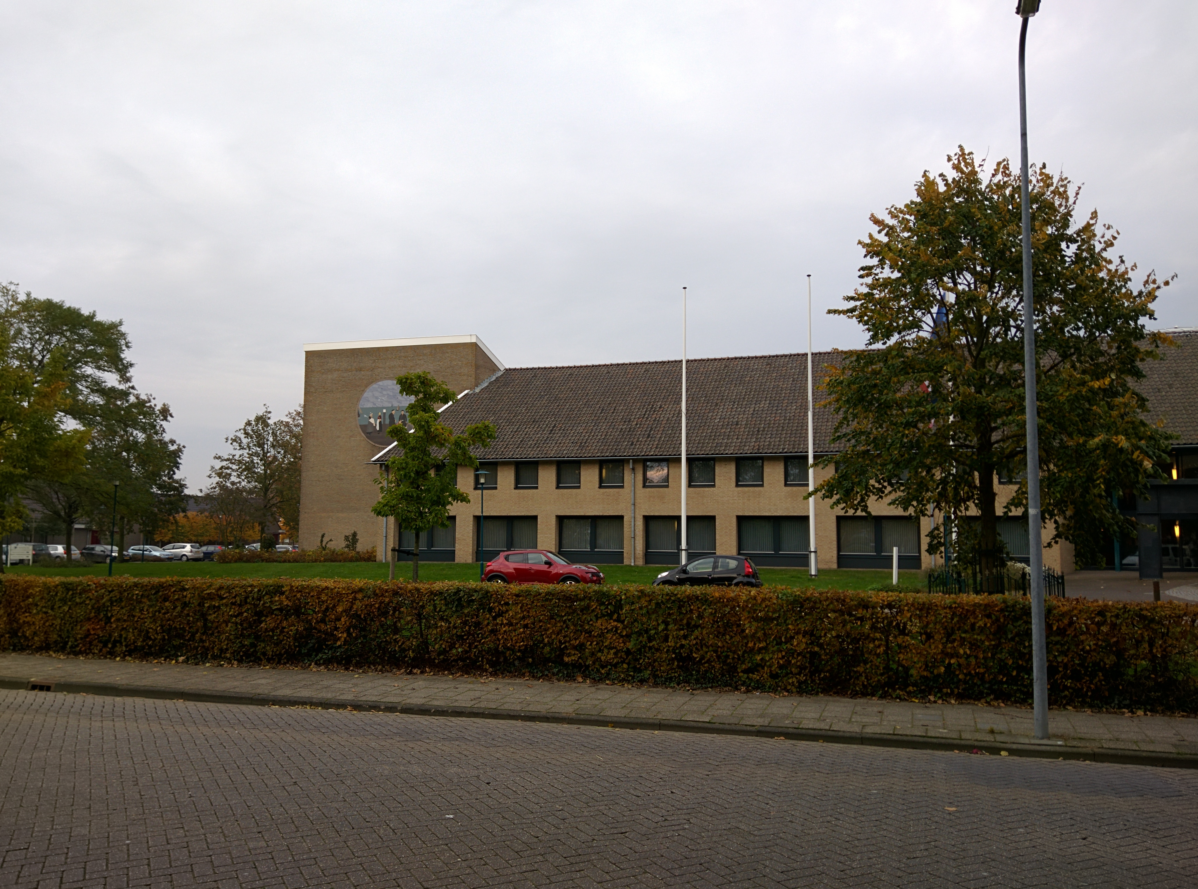 The town hall of Urk.